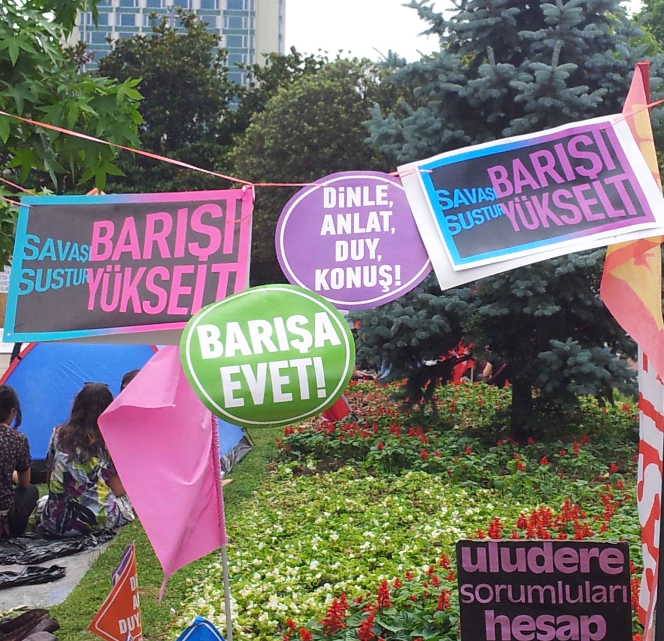 A few banners backing W:Solution process in Gezi Park during Gezi Protests: Silence the war and raise the peace, Listen Tell Hear Speak, Yes to peace, Those who responsible of Uludere shall be brought to justice